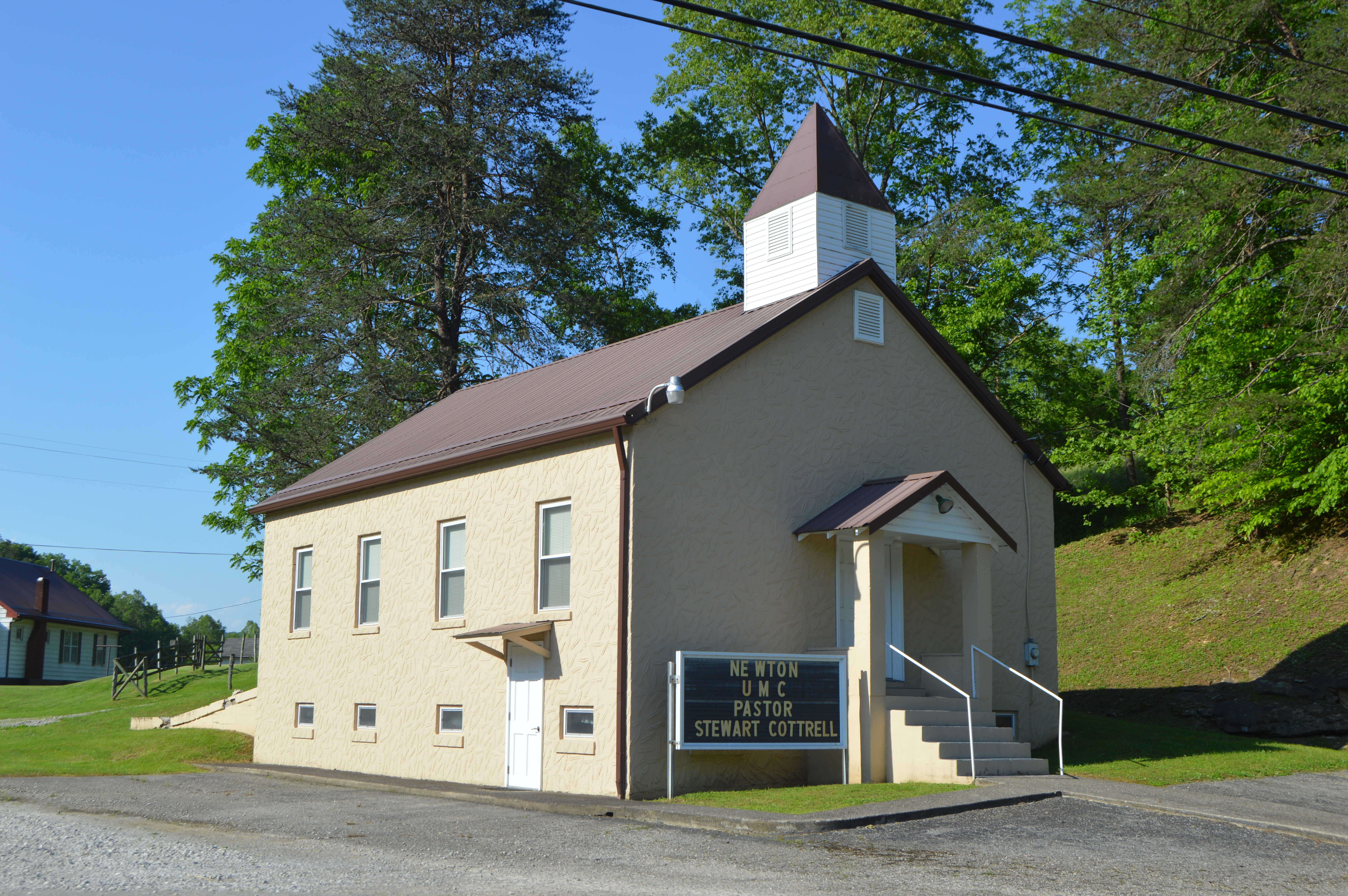 Front and western side of the Newton United Methodist Church, located on West Virginia Route 36 at Newton in Roane County, West Virginia, United States.